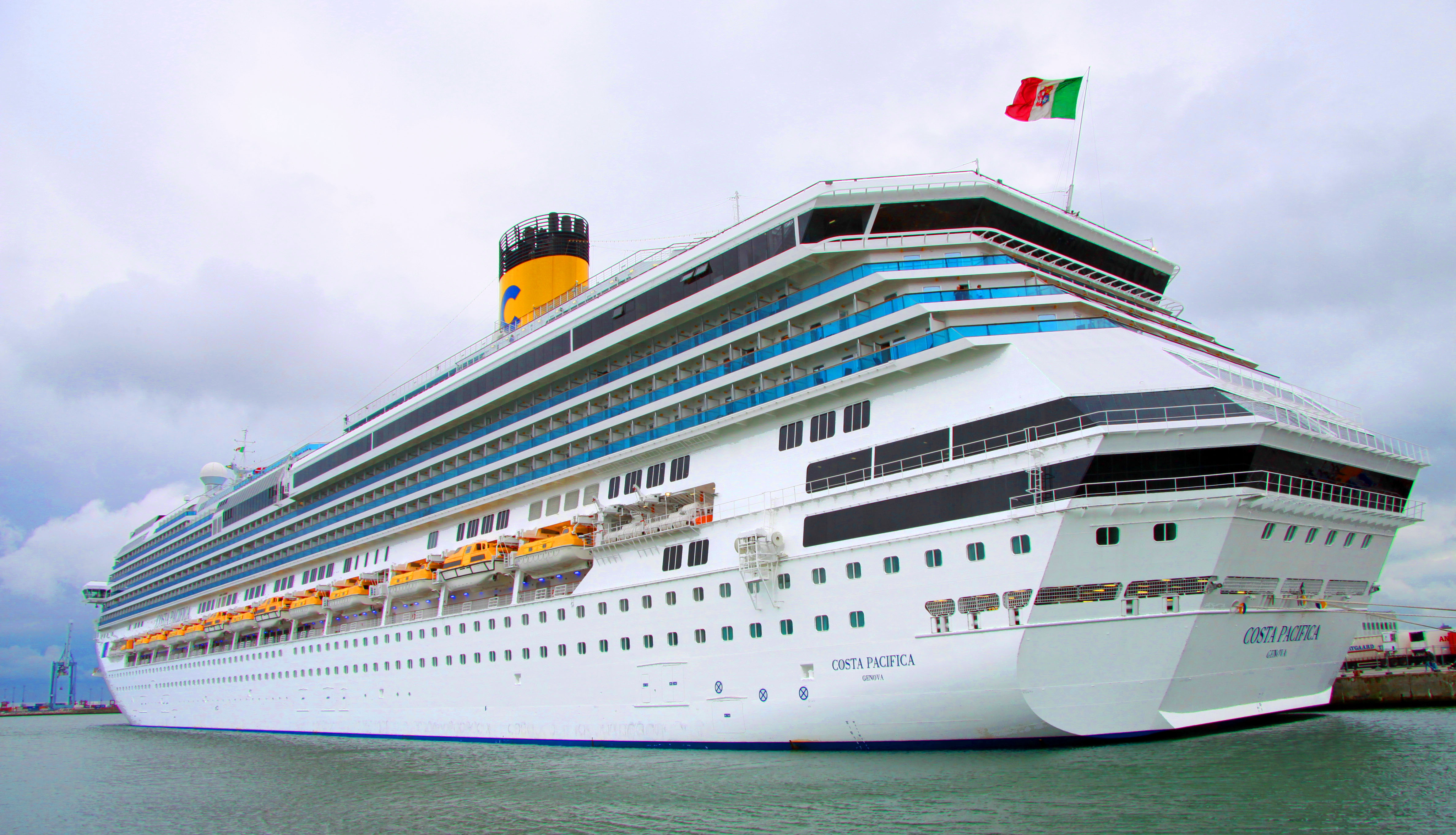 Aarhus, Denmark, Le Costa Pacifica in the harbor